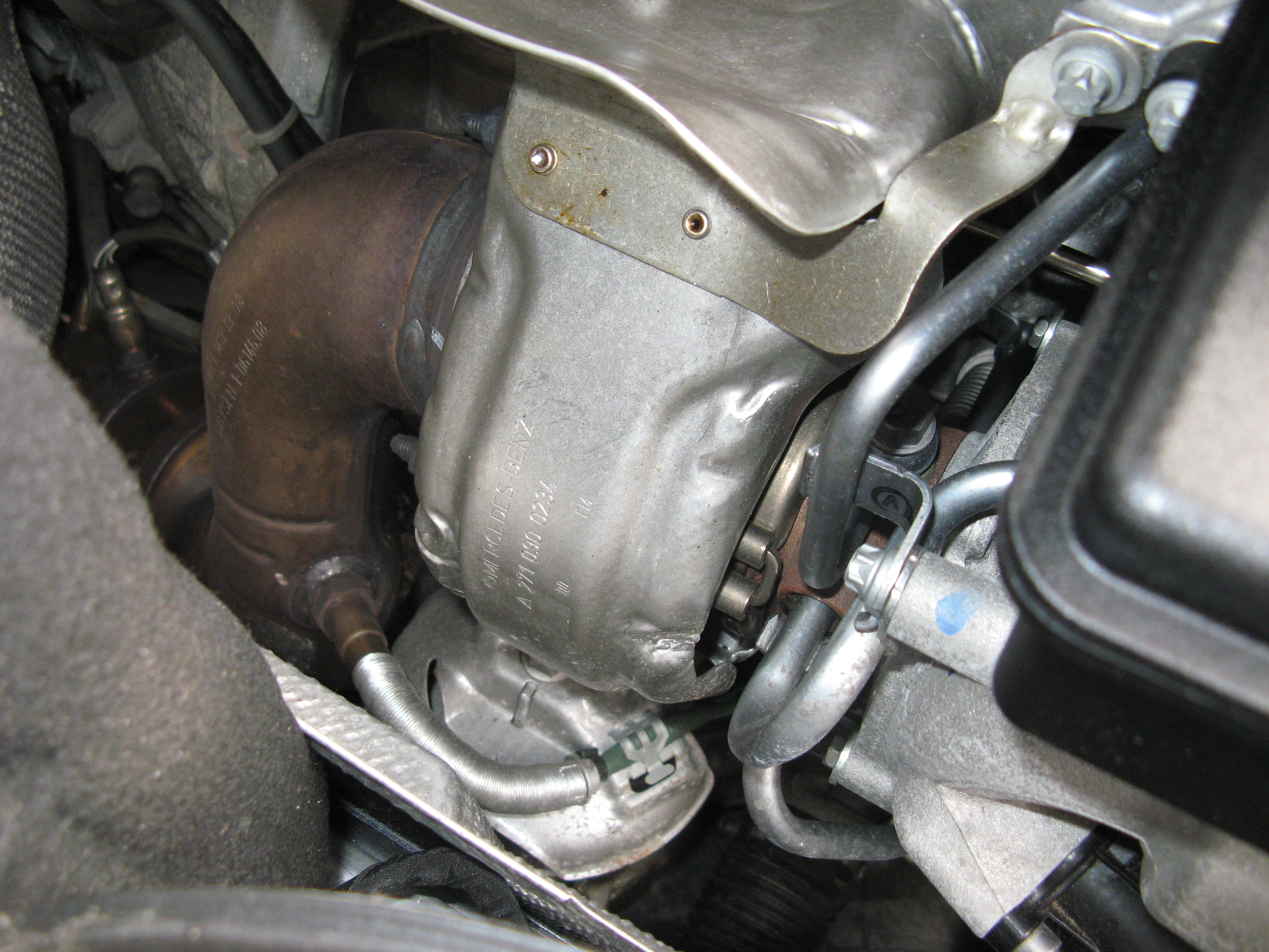 The turbocharger of the Mercedes-Benz M271 EVO engine, type M 271 DE 18 AL